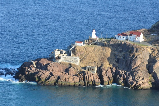 The_Narrows_and_Pancake_Rock,_St_Johns,_Newfoundland. The flat rock is seen to the left of the photograph and is opposite Chain Rock on the other side of the Narrows where a chain stretched between the 2 rocks was used as a defense during times of war.